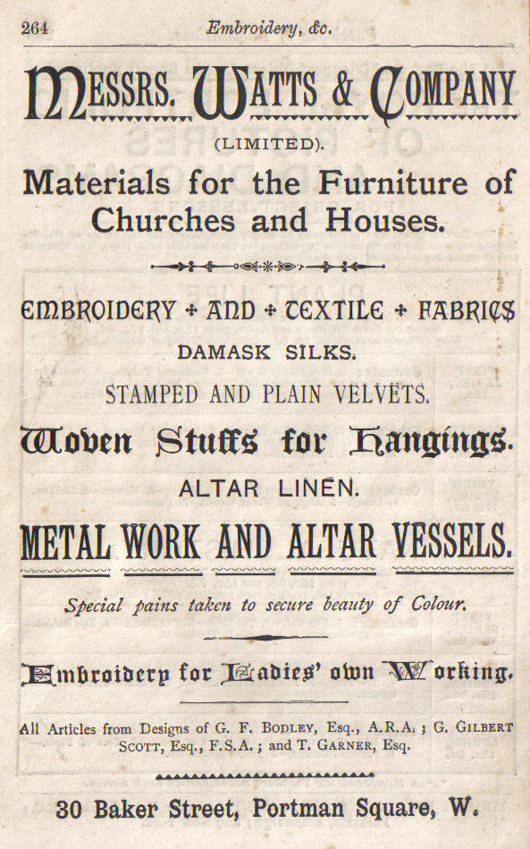 Watts & Co, 30 Baker Street, Portman Square, London. Materials for the Furniture of Churches and Houses. Embroidery and textile fabrics. Damask silks. Stamped and plain velvets. Altar Linen. Metal work and altar vessels. All articles from designs of George Frederick Bodley, George Gilbert Scott and Thomas Garner. From the Illustrated Guide to the Church Congress 1897